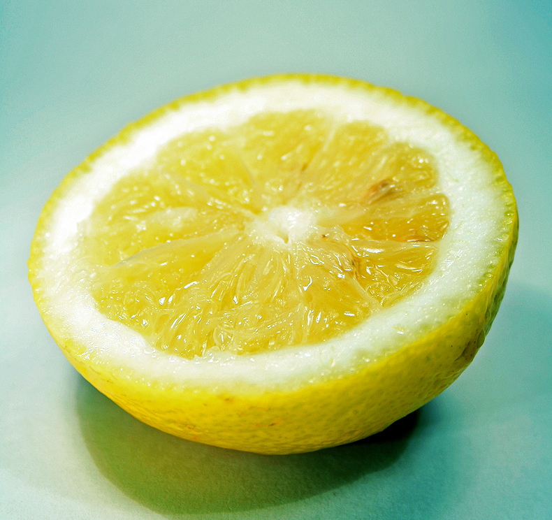 A sliced lemon